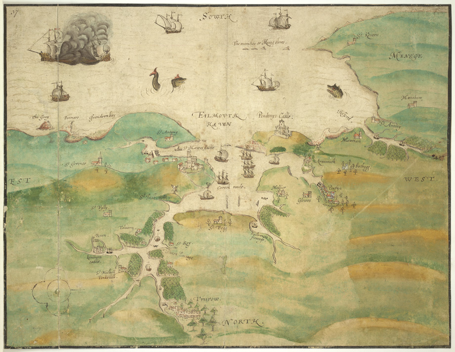 A coloured chart of Falmouth Haven and the river Fal up to Truro; drawn 1590-1600